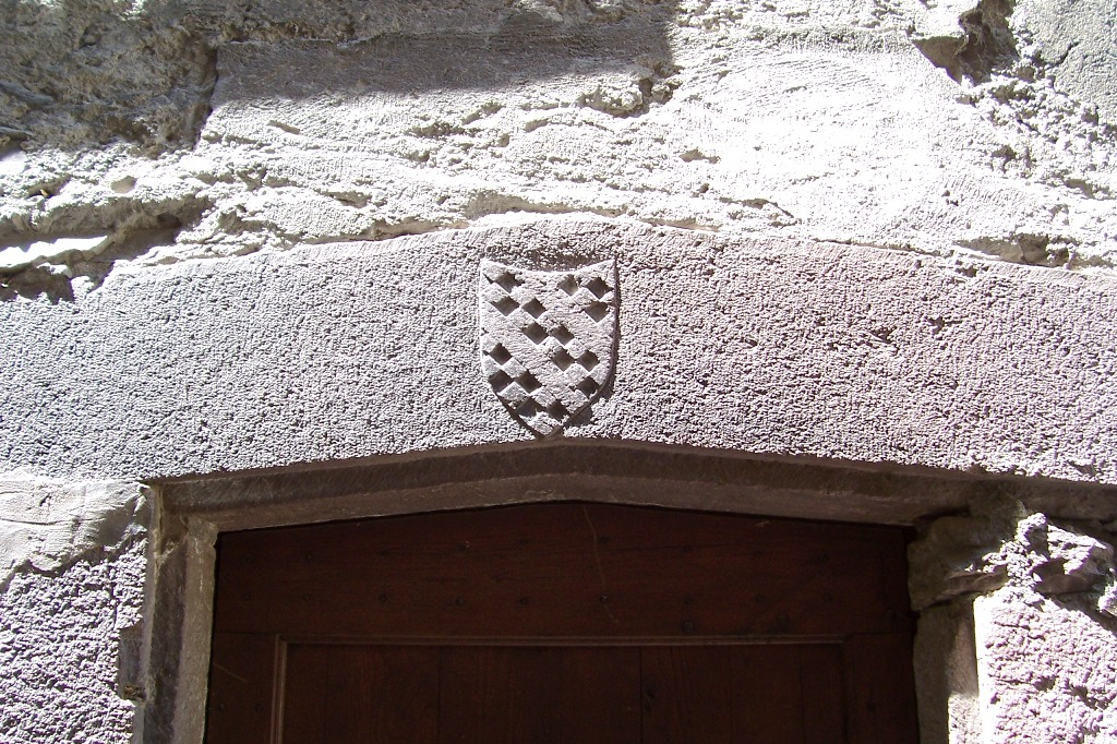 Coats of arms of the House of Federici. Angolo Terme, Val Camonica